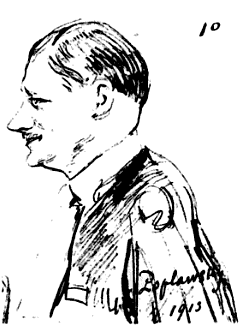 Caricature of Professor Robert Poplawski Bordeaux (1886-1953) in 1913